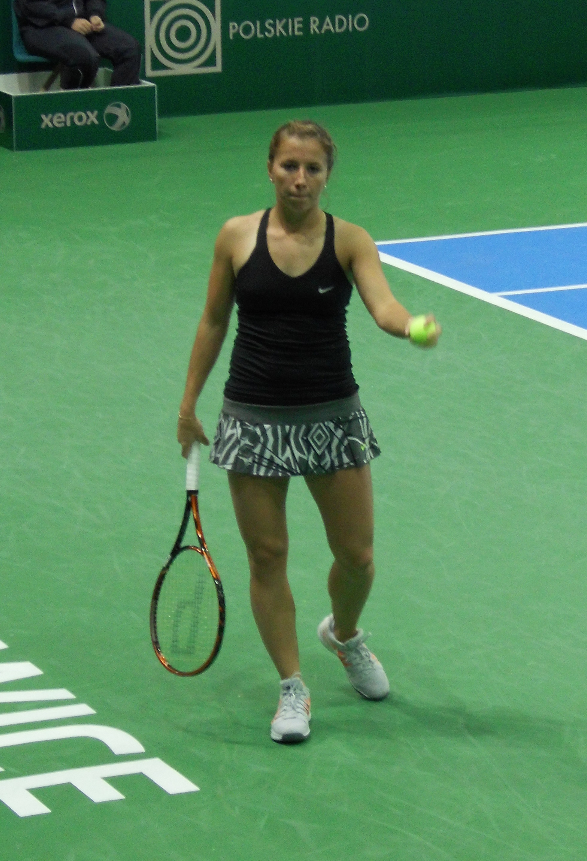 Annika Beck during second round match at BNP Paribas Katowice Open 2014